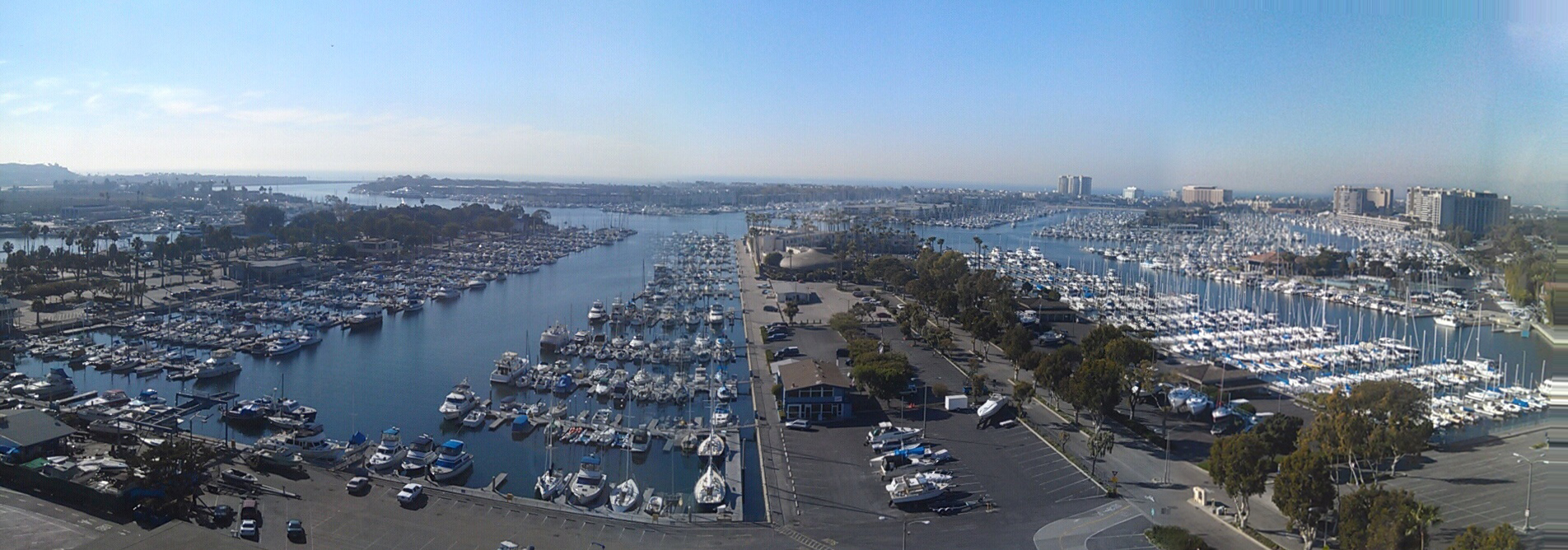 View of boats moored in Marina del Rey, California, USA, as viewed from the 11th floor of a nearby office building.